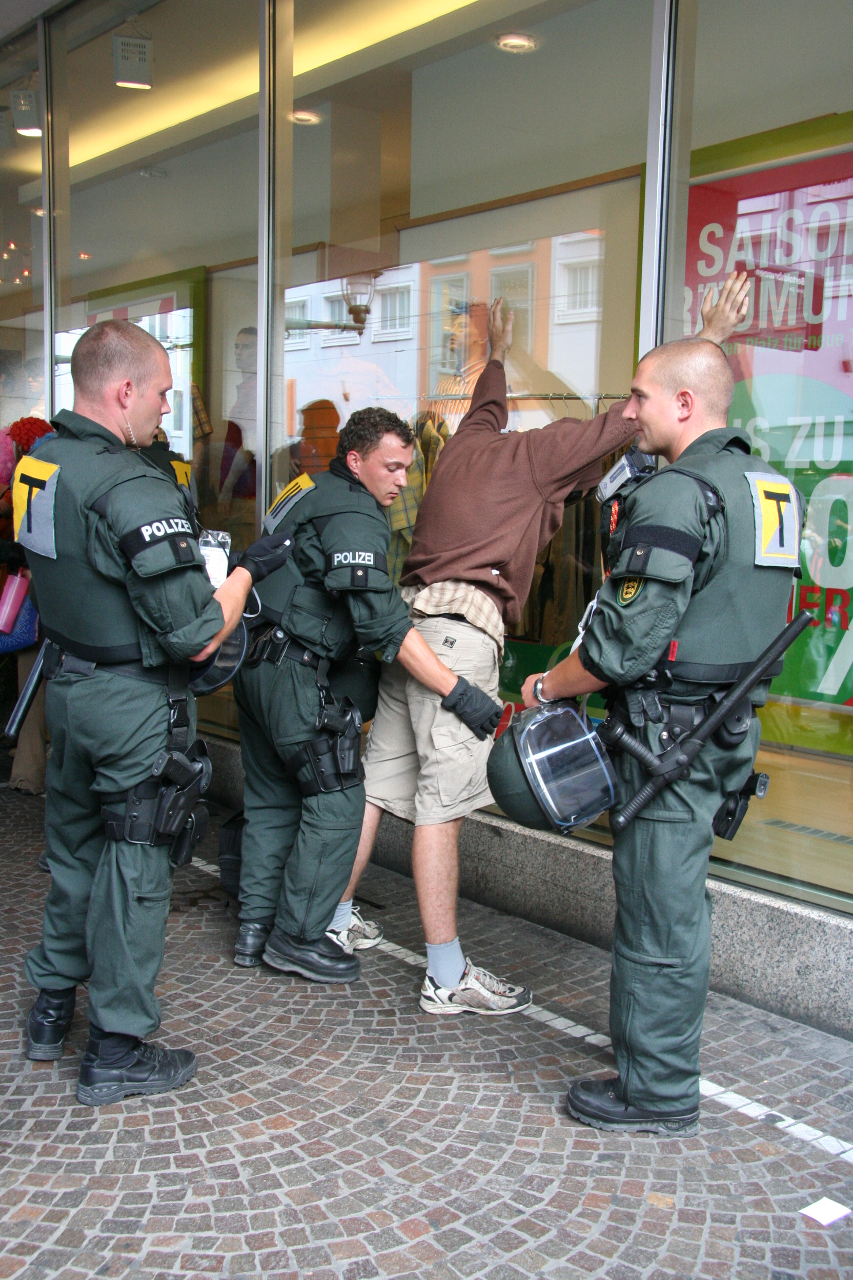 arrest of demonstrators in Freiburg (Germany)